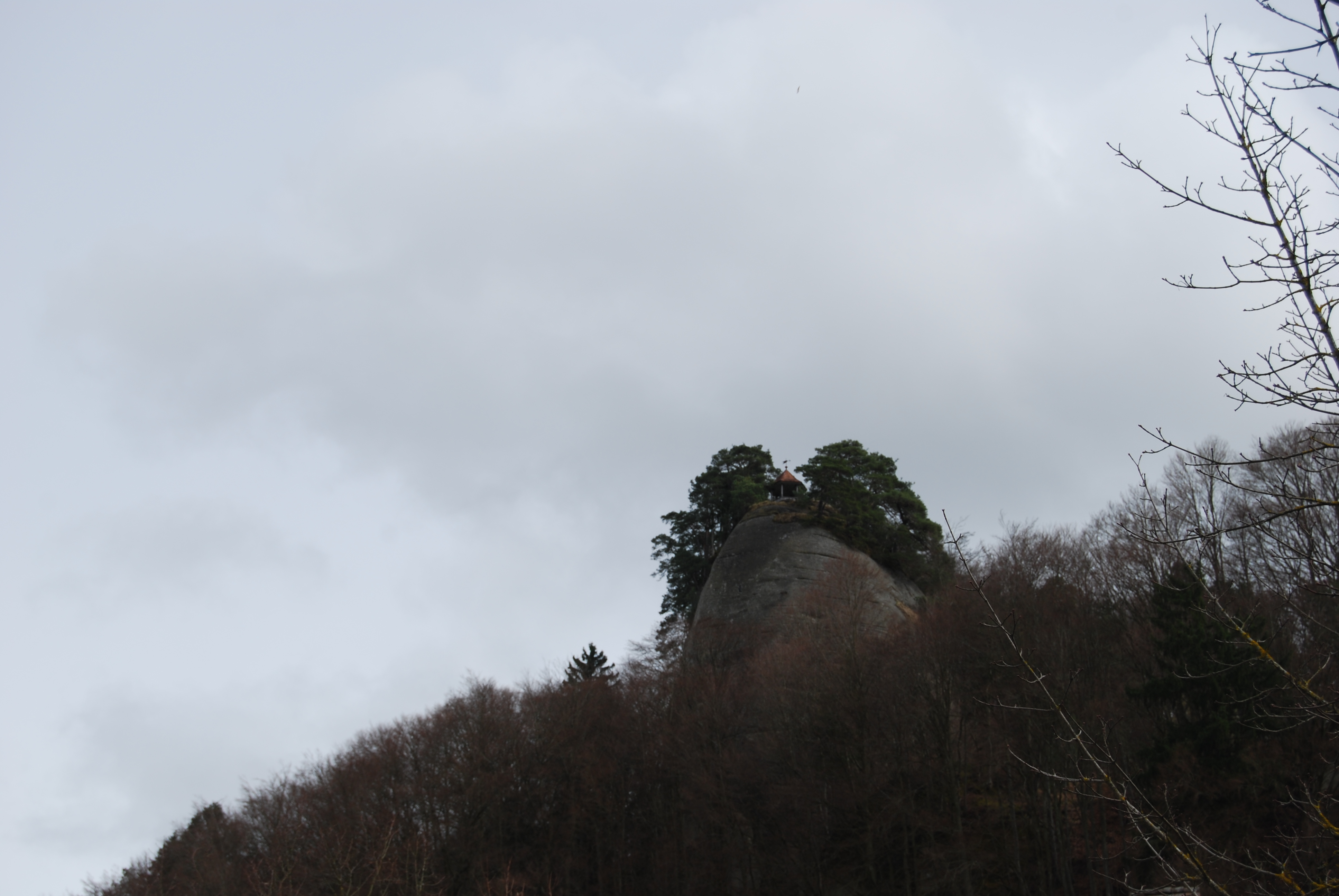 Kreuzfluh at Krauchthal, canton of Bern, SwitzerlandEsperanto: Kreuzfluh en Krauchthal, Kantono Berno, Svislando